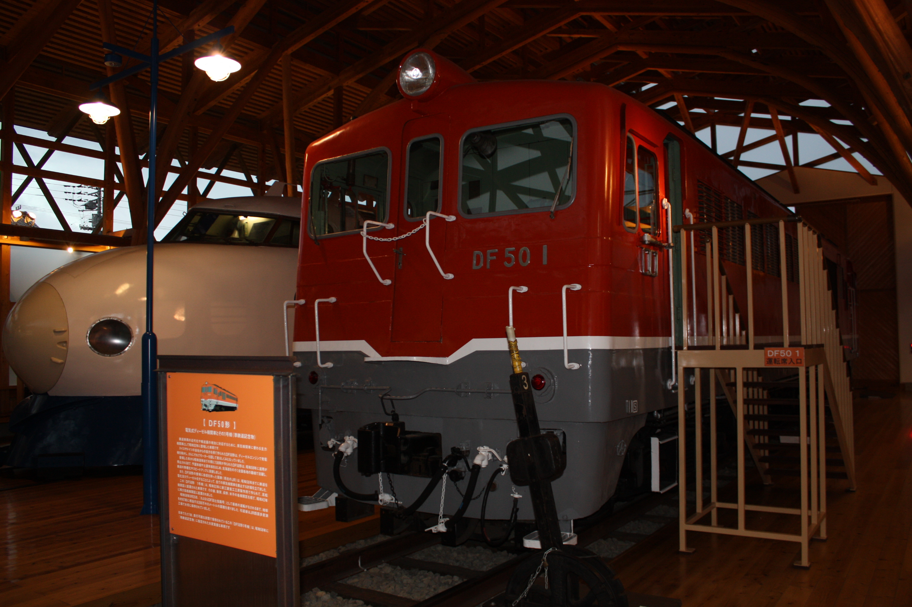 Preserved Class DF50 diesel locomotive DF50 1 at the Railway History Park in Saijo, Ehime